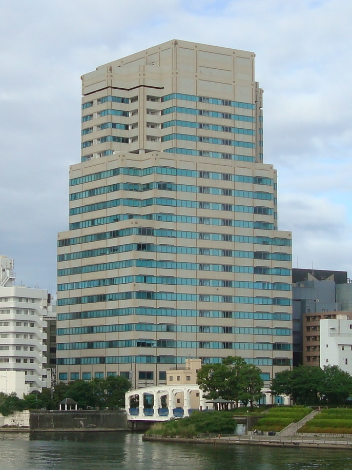 Kayabacho Tower, former headquarters of Yamaichi Securities, Chuo city, Tokyo